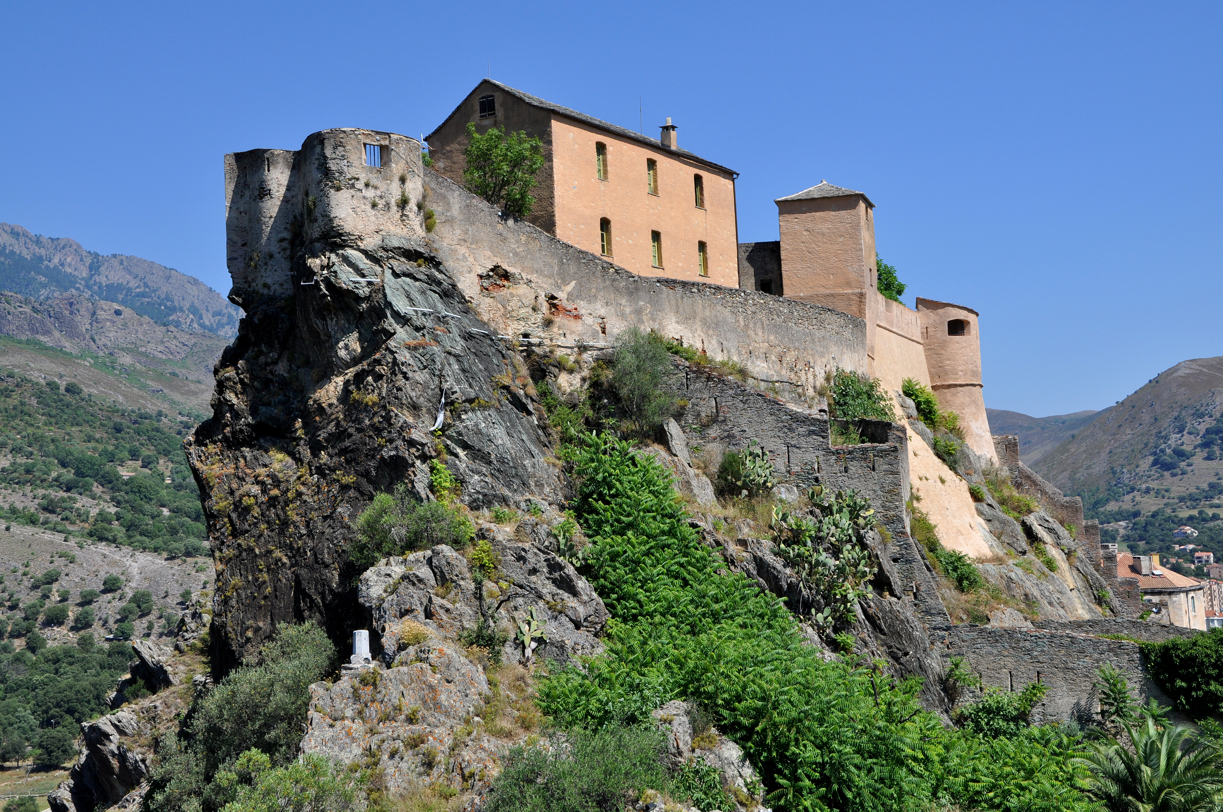 The Citadelle of Corte